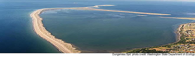 Dungeness National Wildlife Refuge boasts one of the world's longest natural sand spits, which softens the rough sea waves to form a quiet bay and harbor, gravel beaches, and tide flats. Dungeness Spit is one of only a few such geological formations in the world which was formed during the Vashon Glacial era ten to twenty thousand years ago. Credit: WA Dept of Ecology